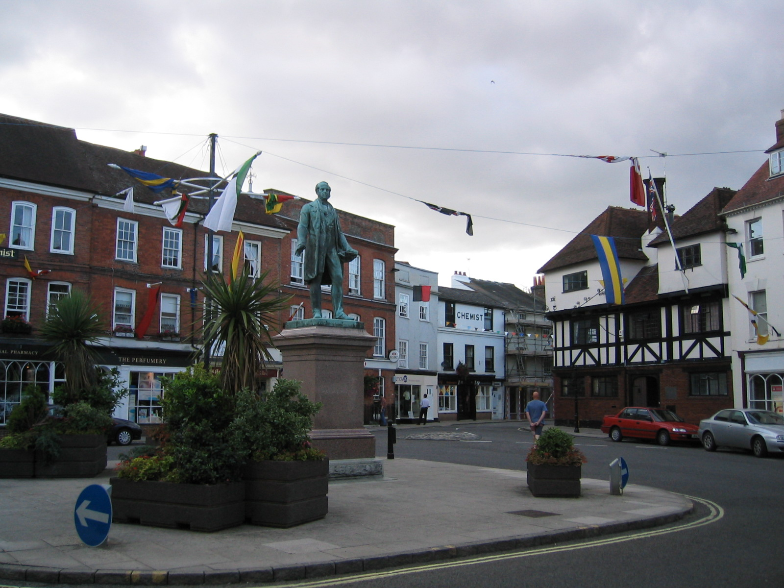 Romsey town centre, Hampshire, UK, including a statue of Lord Palmerston. Photo taken by me 2005-08-03.